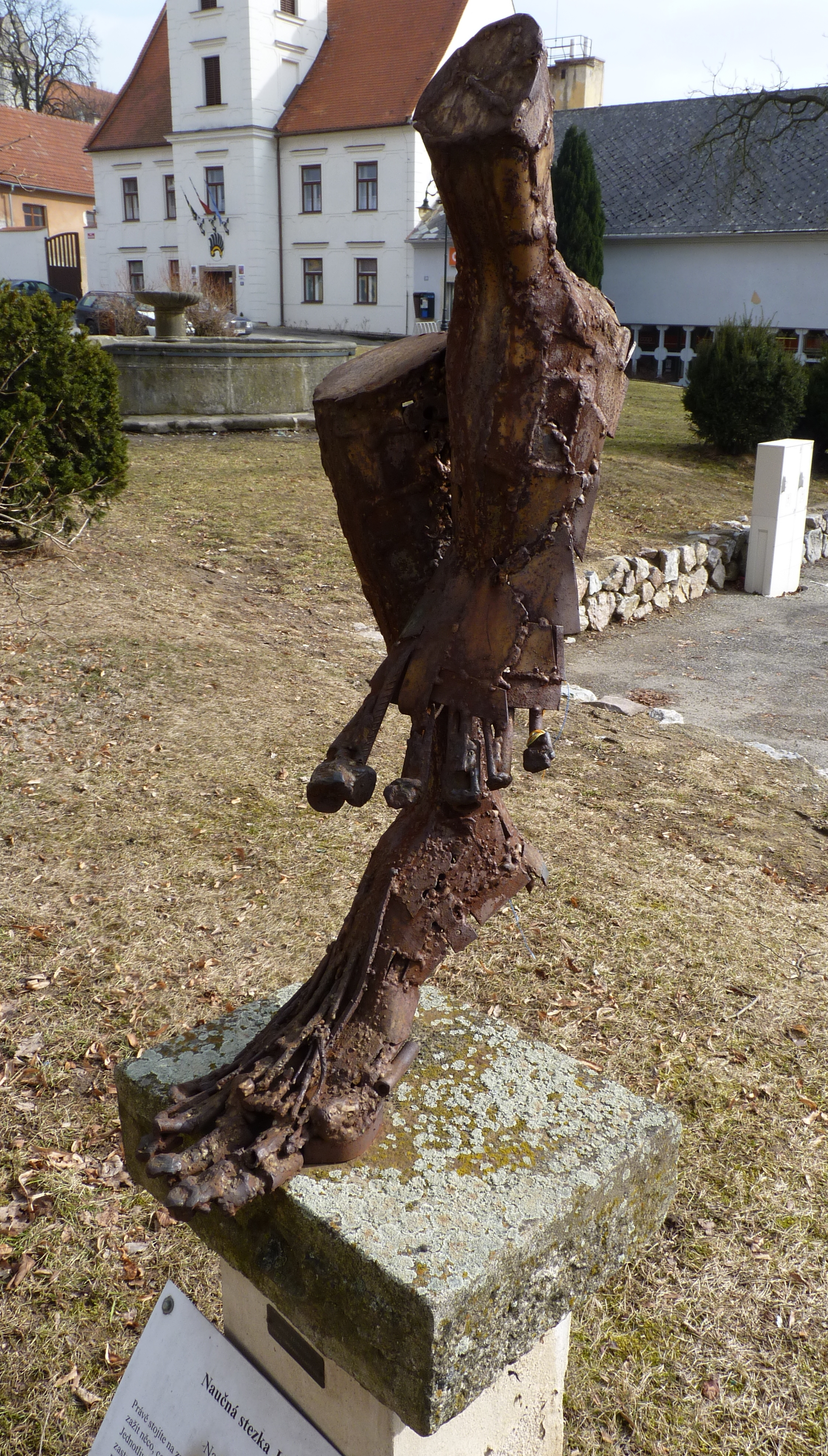 Statue at square. Lomnice, Brno-Country District, South Moravian Region, Czech Republic